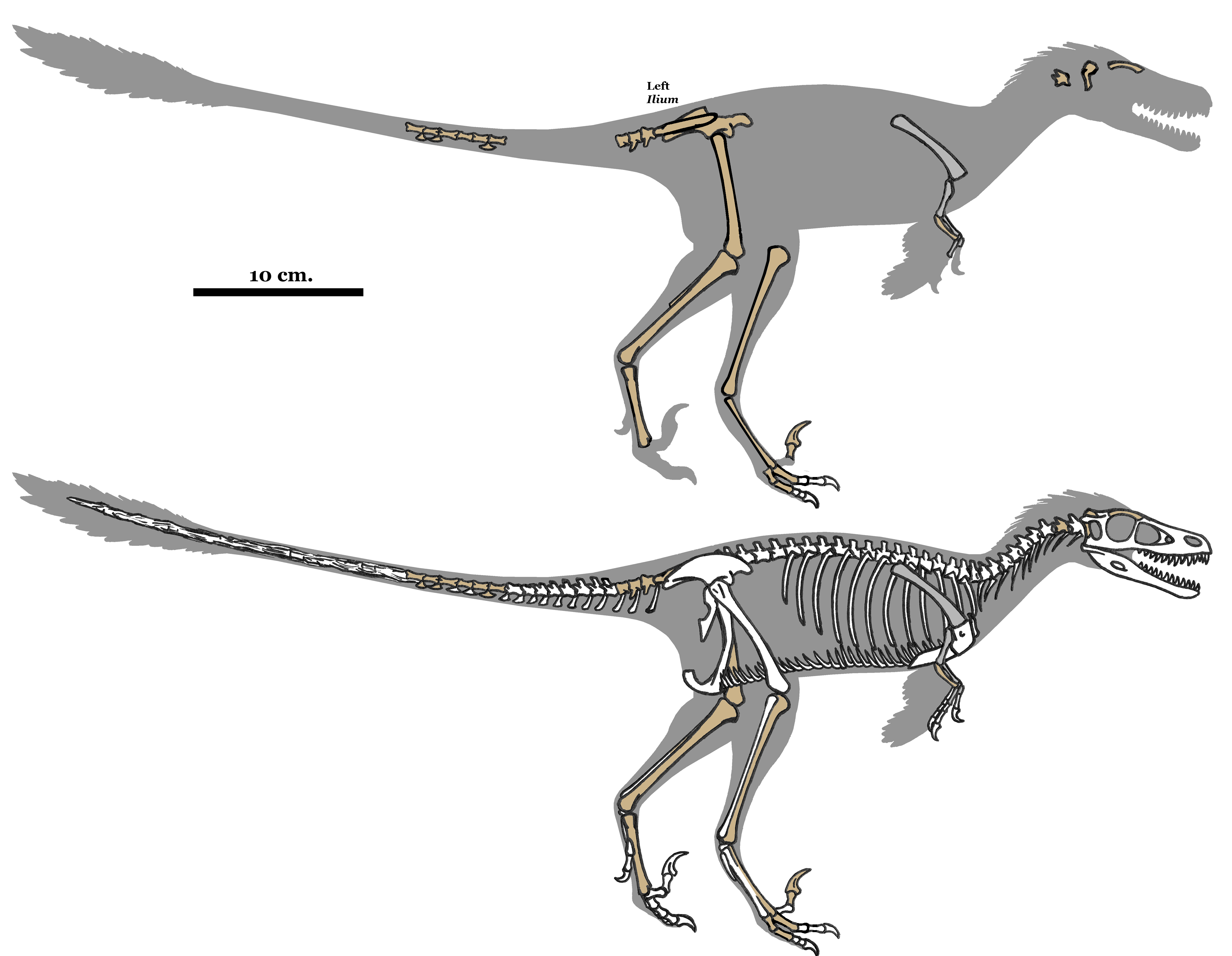 Skeletal diagram showing the known fossil pieces from the Dromaeosaurid dinosaur Mahakala omnogovae (based on the holotype IGM 100/1033). Known bones are coloured beige. Bones which have been described in the original paper, but without photos[1] (like the humerus, scapula, carpal bones and metacarpal I and II) are coloured grey. References ↑ Norell M et.al (2007), "A basal Dromaeosaurid and size evolution preceding avian flight", Science 317(36): p. 1378-1381.